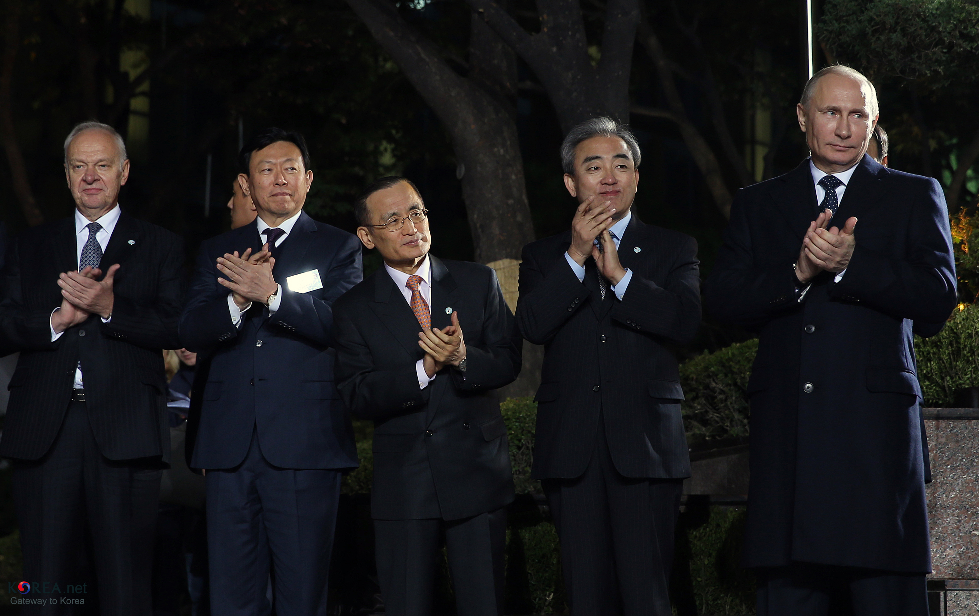 The official unveiling ceremony for the statue of Russian poet Alexander Pushkin (From right) Russian President Vladimir Putin, Minister of Culture, Sports and Tourism Yoo Jin-ryong, Ambassador to Russia Wi Sung-lac, Lotte Group CEO Shin Dong-bin and Russian Ambassador to Korea Konstantin Vnukov celebrate the unveiling of a new statue of Alexander Pushkin in Seoul on November 13. November 13, 2013 Lotte Hotel, Seoul Related Articles Cheong Wa Dae Putin: Pushkin is a symbol of Korea-Russia ties -English Putin: Pushkin is a symbol of Korea-Russia ties -Russian- Путин: Пушкин является символом связи Кореи и России Ministry of Culture, Sports and Tourism Korean Culture and Information Service ( JEON HAN 푸틴 러시아 대통령, 푸시킨 동상 제막식 참석 2013-11-13 롯데호텔, 명동, 서울 문화체육관광부 해외문화홍보원 코리아넷 전한